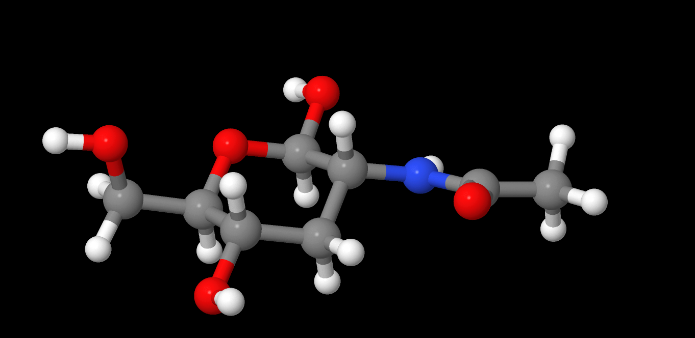 N-Acetyl-α-D-glucosamine rendered in Jmol